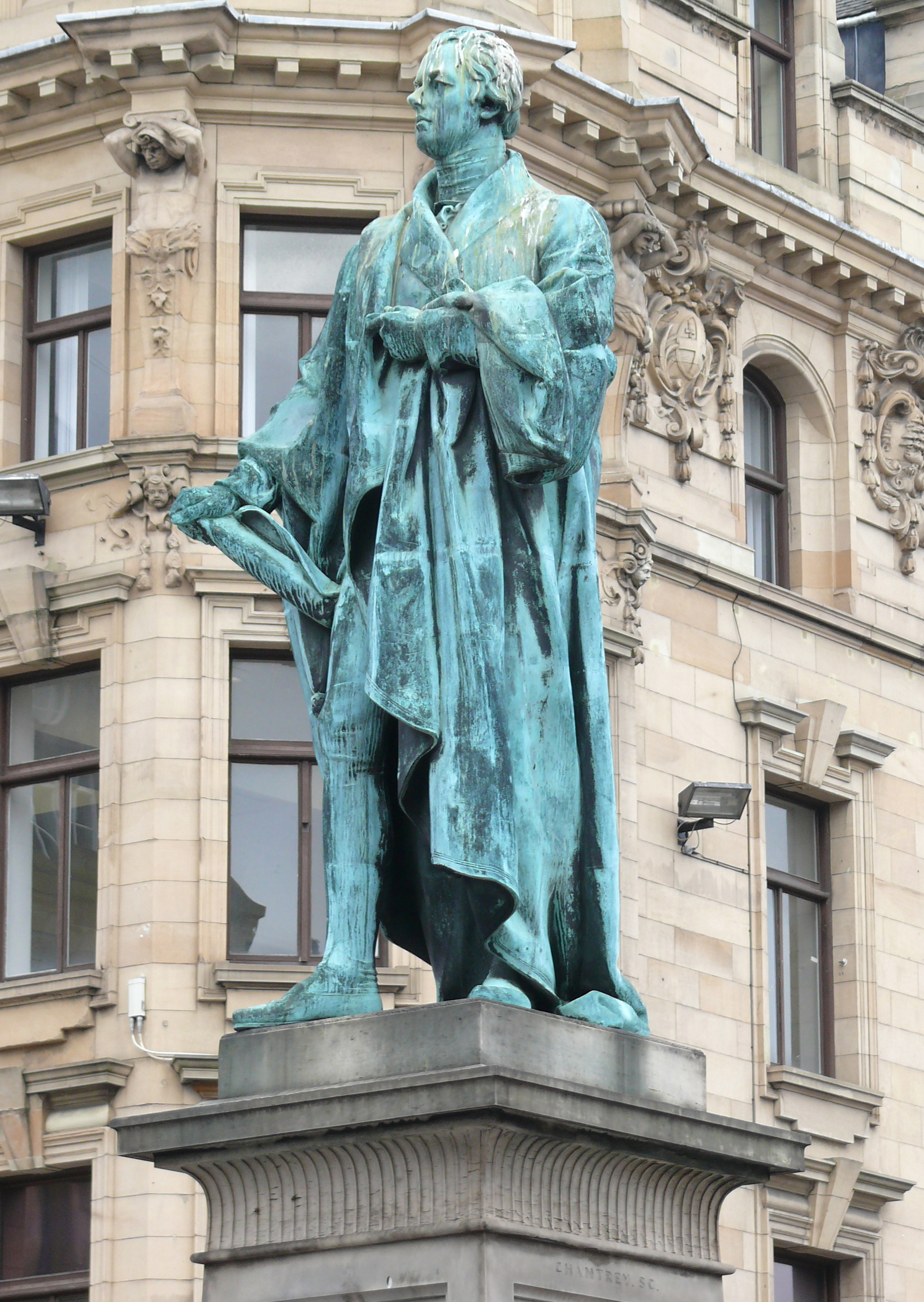 Statue of William Pitt the Younger at the intersection of George Street and Frederick Street, Edinburgh.